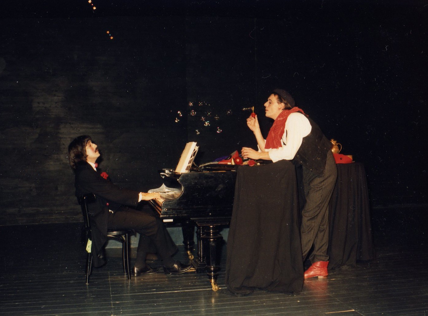 Frieder Nögge und Polo Piatti performing 'Der Satierkreiss' in 'Theater Forum 3' in Stuttgart